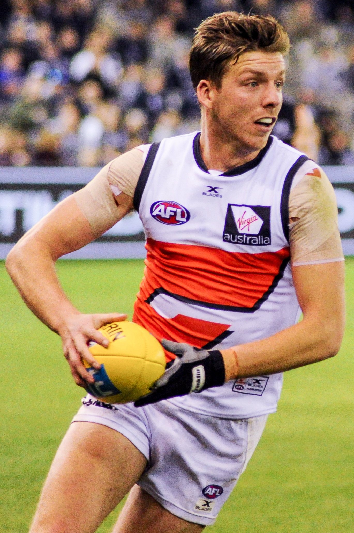 Aidan Corr during the AFL round twelve match between Carlton and Greater Western Sydney on 11 June 2017 at Etihad Stadium in Melbourne, Victoria.